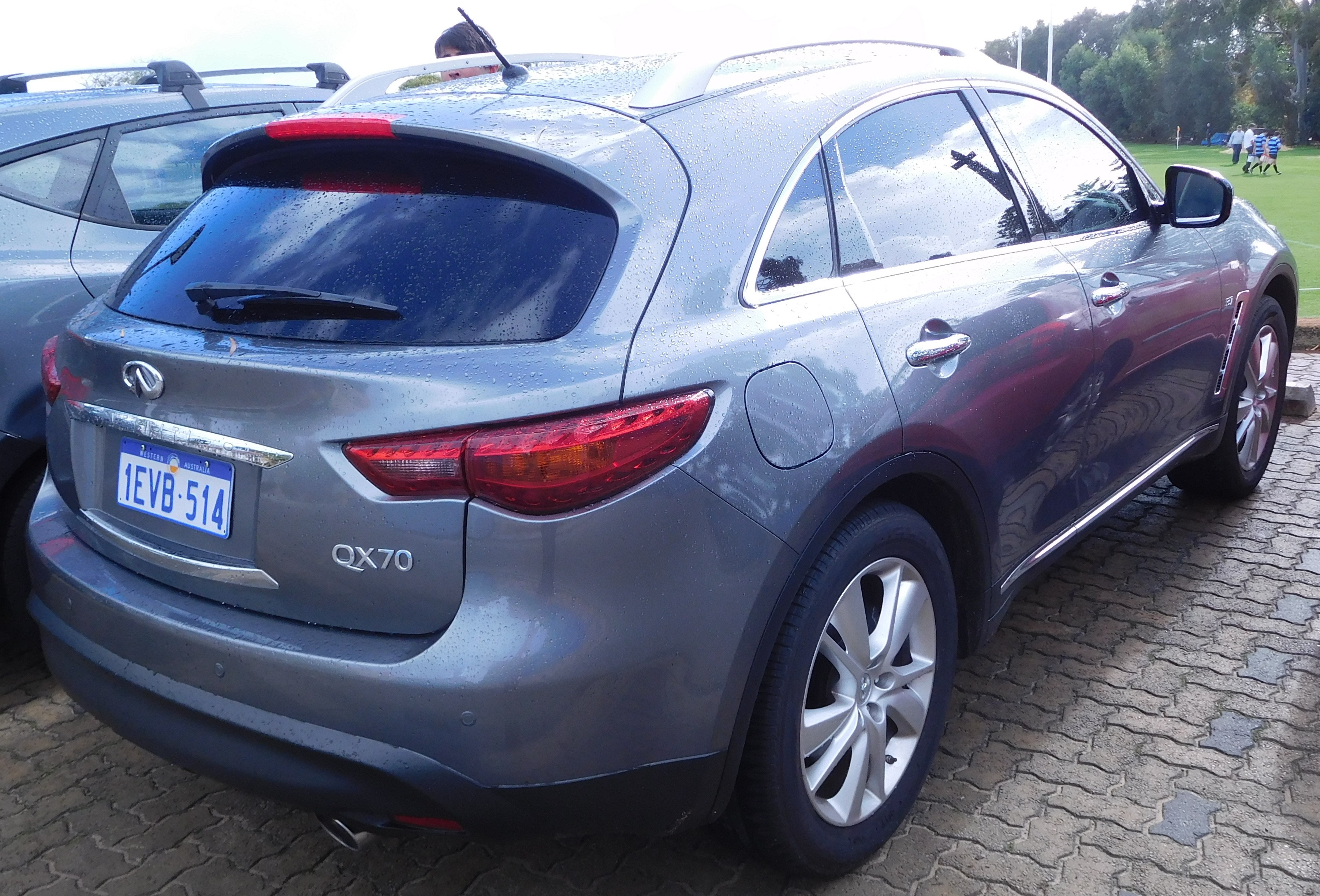 2014-2015 Infiniti QX70 (S51) GT wagon. Photographed at Scotch College, Swanbourne, Western Australia Australia.